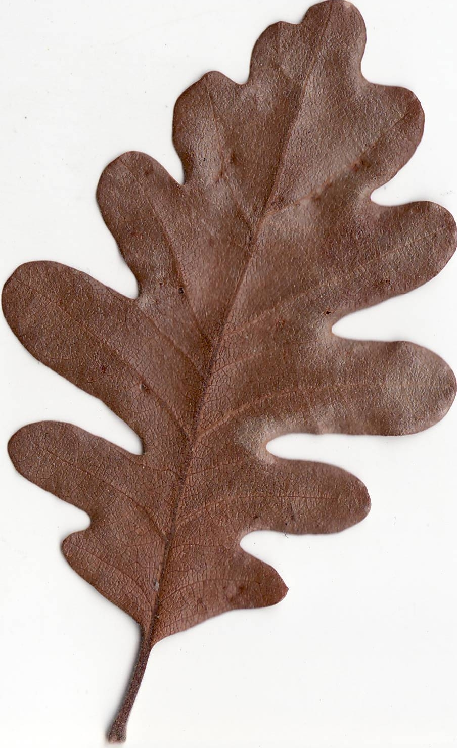 Scan of a leaf of a Gambel Oak (Quercus gambelii Nutt.) changing colors during autumn. The leaf was obtained on the campus of Brigham Young University.